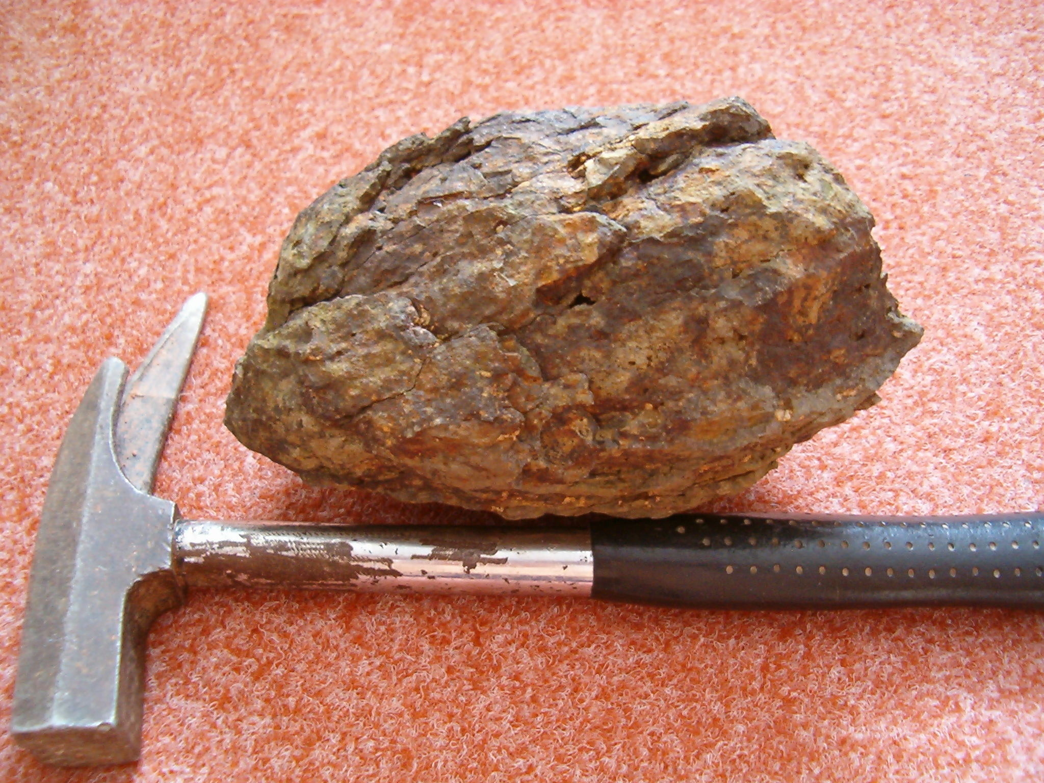 Vulcanic bomb with geology hammer. Origin: Old Stratovulcan near Kladno in Czech republic.